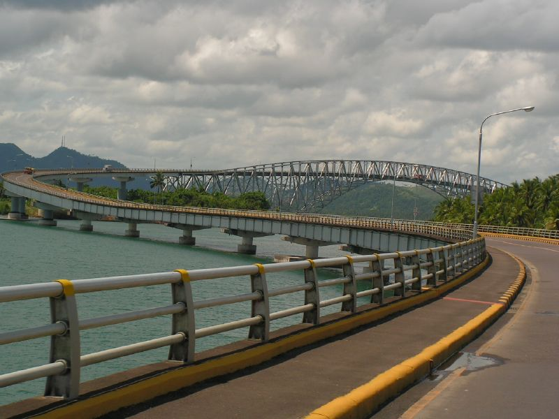 The San Juanico Bridge connecting Leyte and Samar